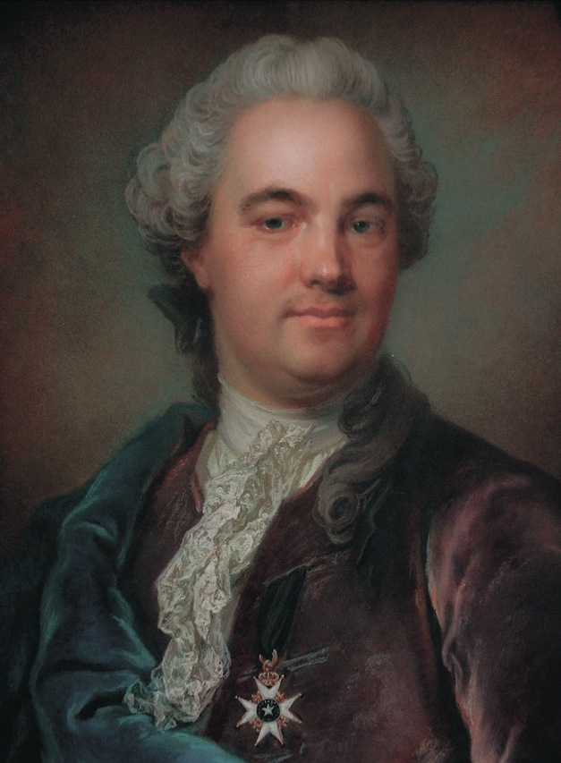 Portrait of Abraham Bäck (1713-1795)